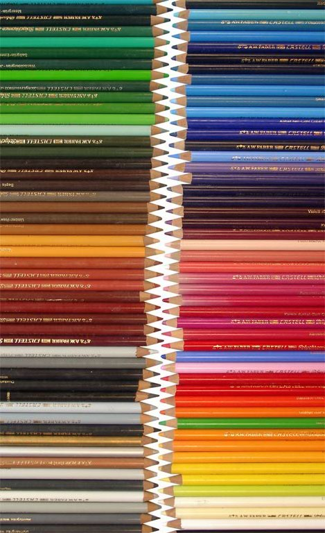 GNU image from German language Wikipedia at [1].